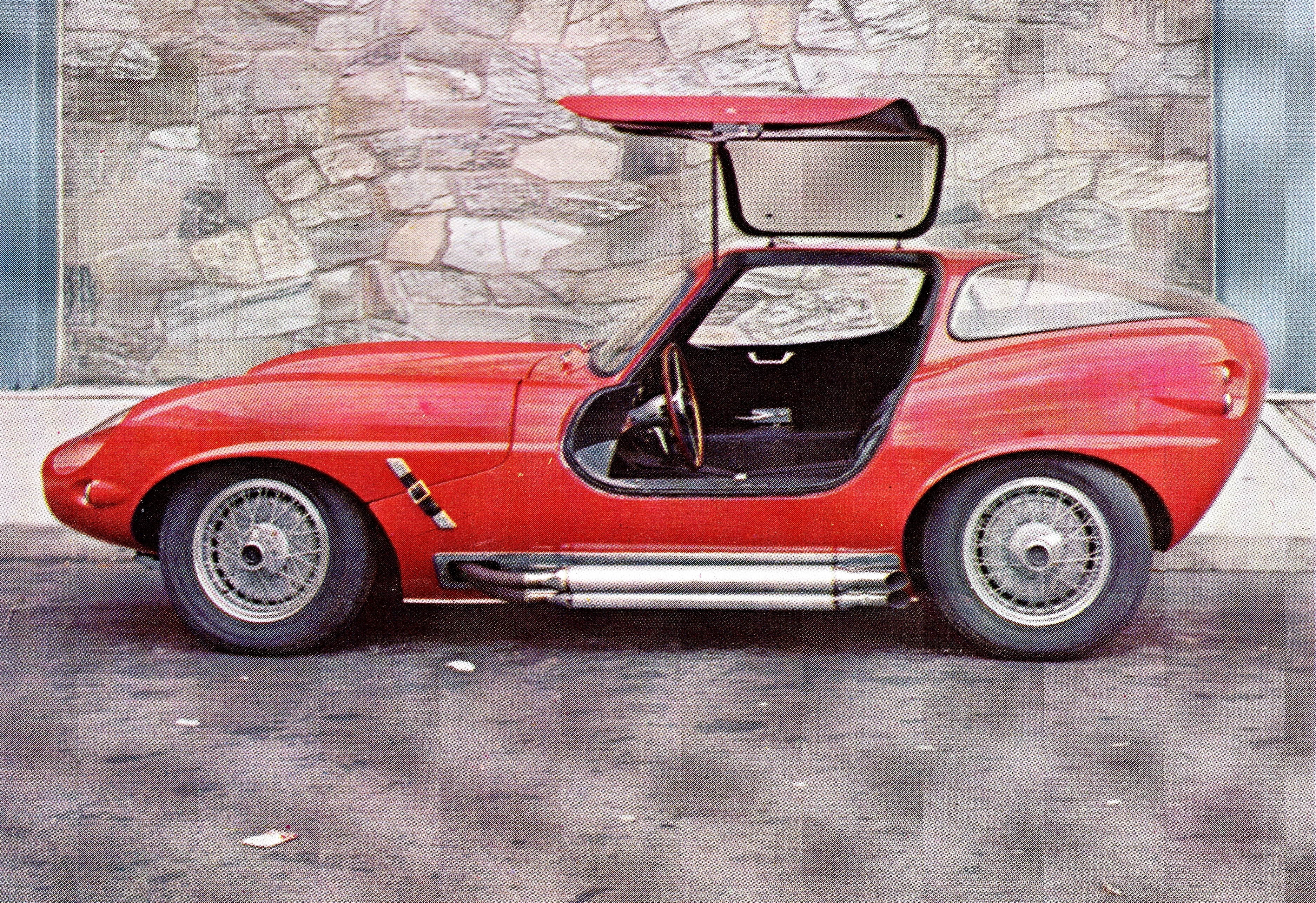 1959 Asardo Type 1500 AR-S